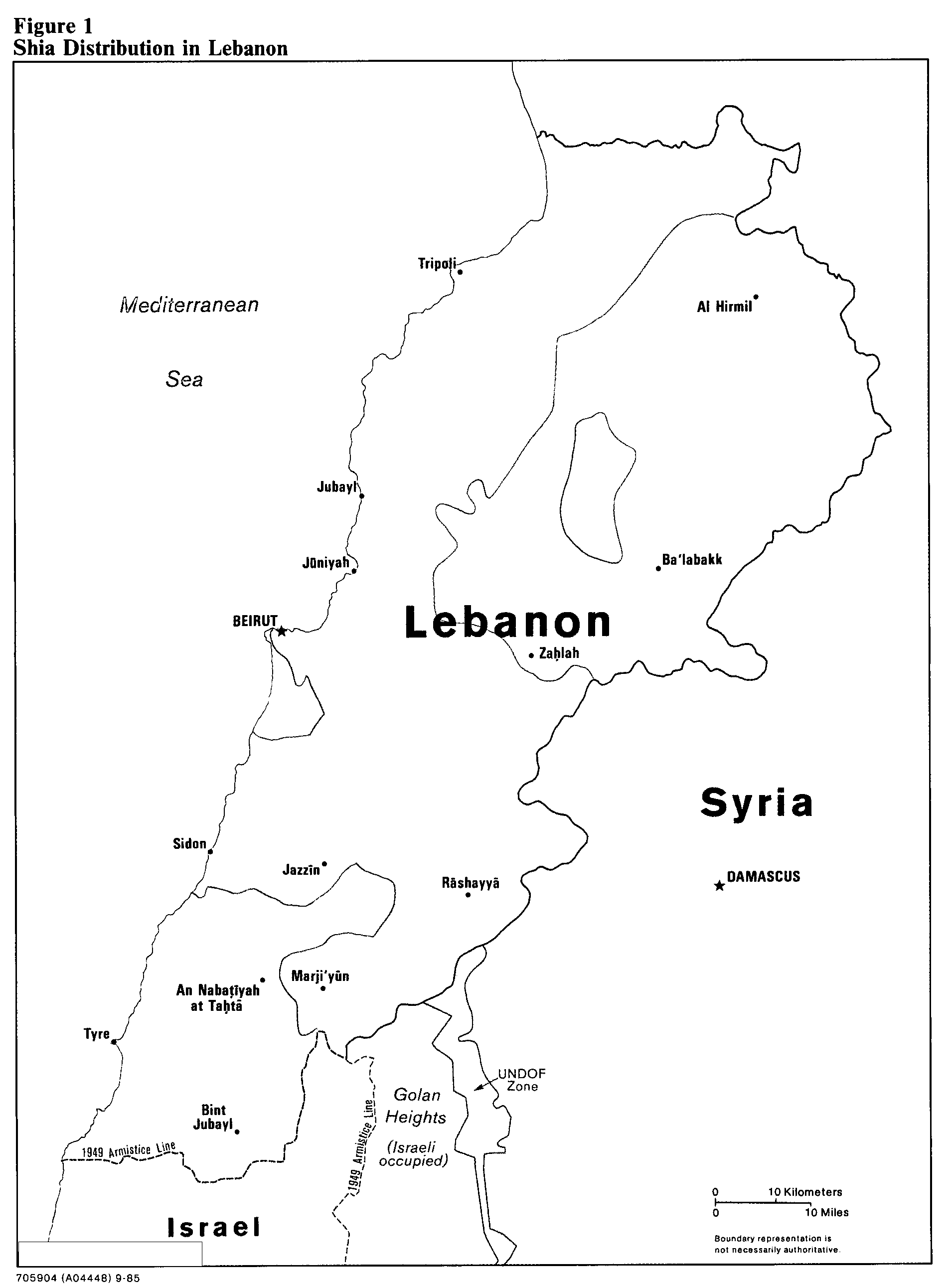 CIA map of Shia distribution in Lebanon in 1985. Shias are concentrated in south Lebanon, the southern Beirut suburbs, and the Bekaa Valley.